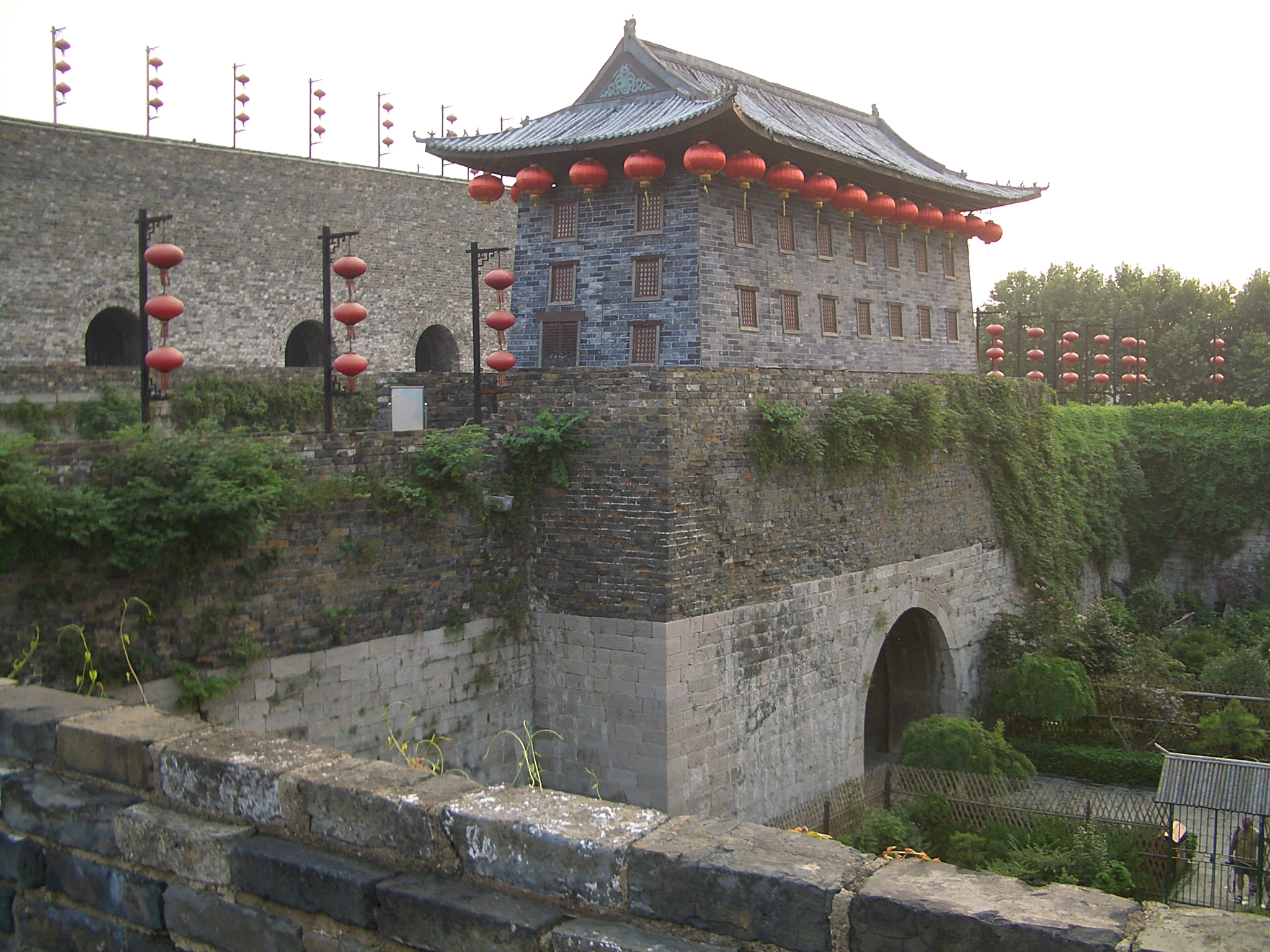 The Zhonghua Gate complex at the southern part of the City Wall of Nanjing. A few fake (cardboard/plywood) decorated pavilions have been put on top, presumably to reproduce the original appearance of the fortress.